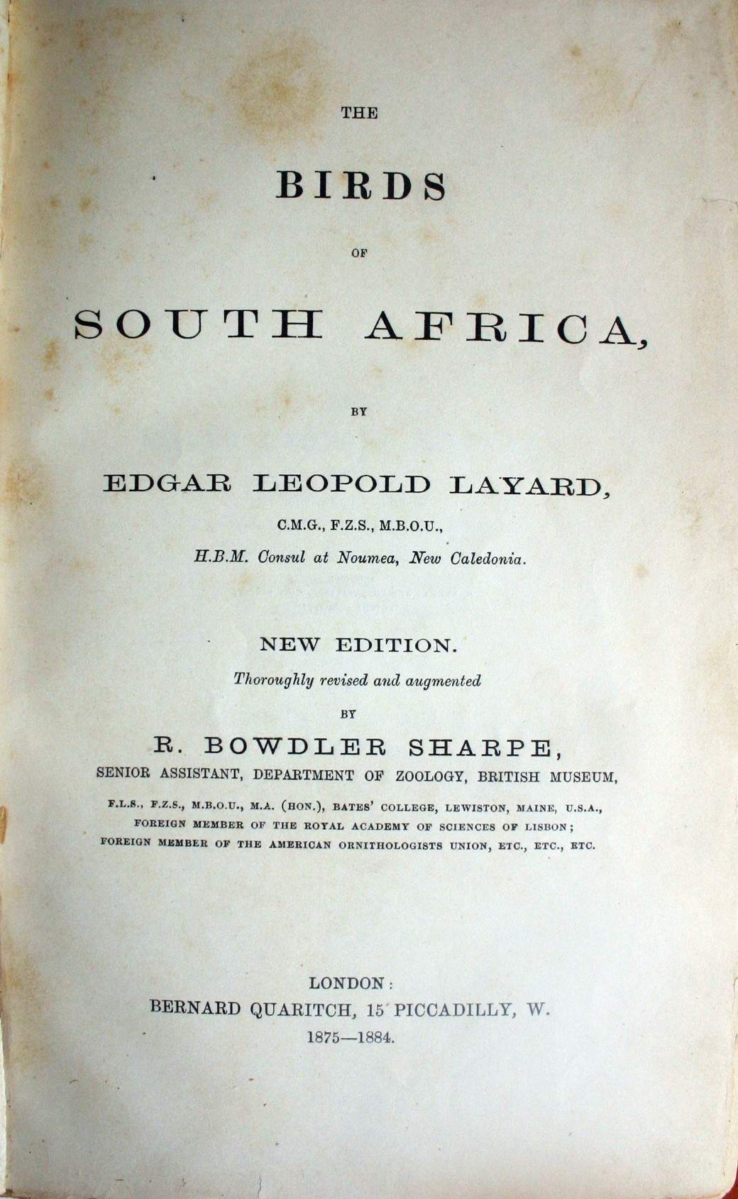 Title page of Layard & Sharpe's "Birds of South Africa", second edition